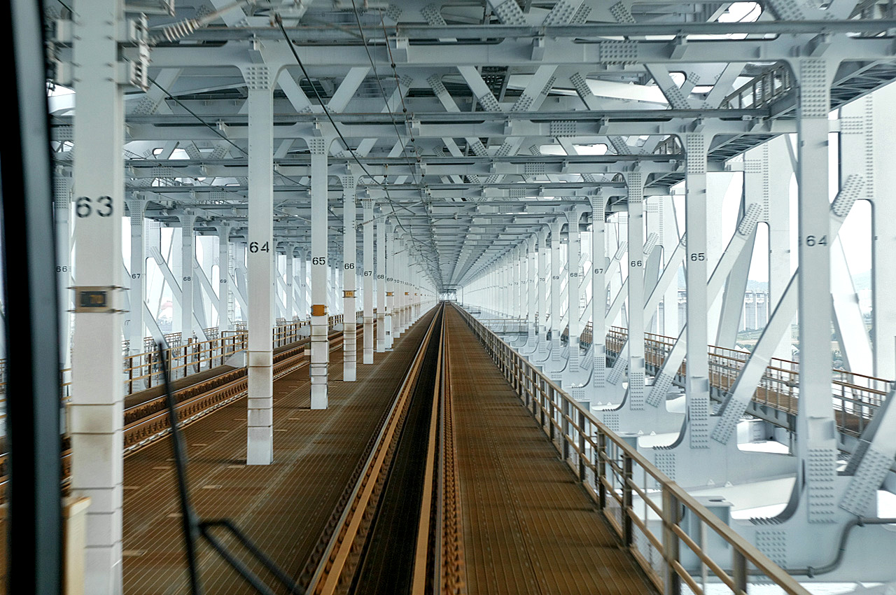 Rail tracks on the Great Seto Bridge, Seto-Ohashi Line.